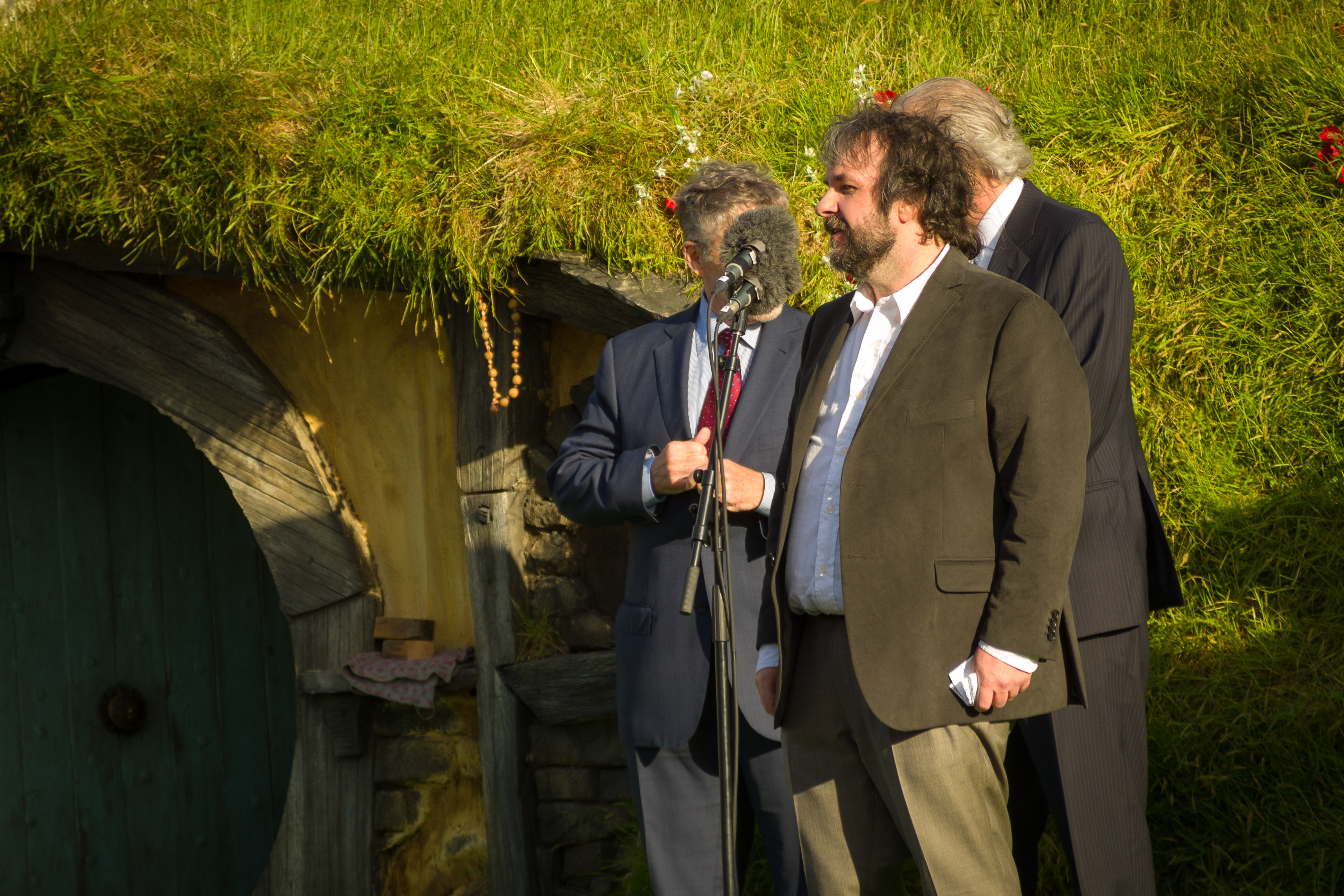 Sir Peter Jackson at Hobbiton.